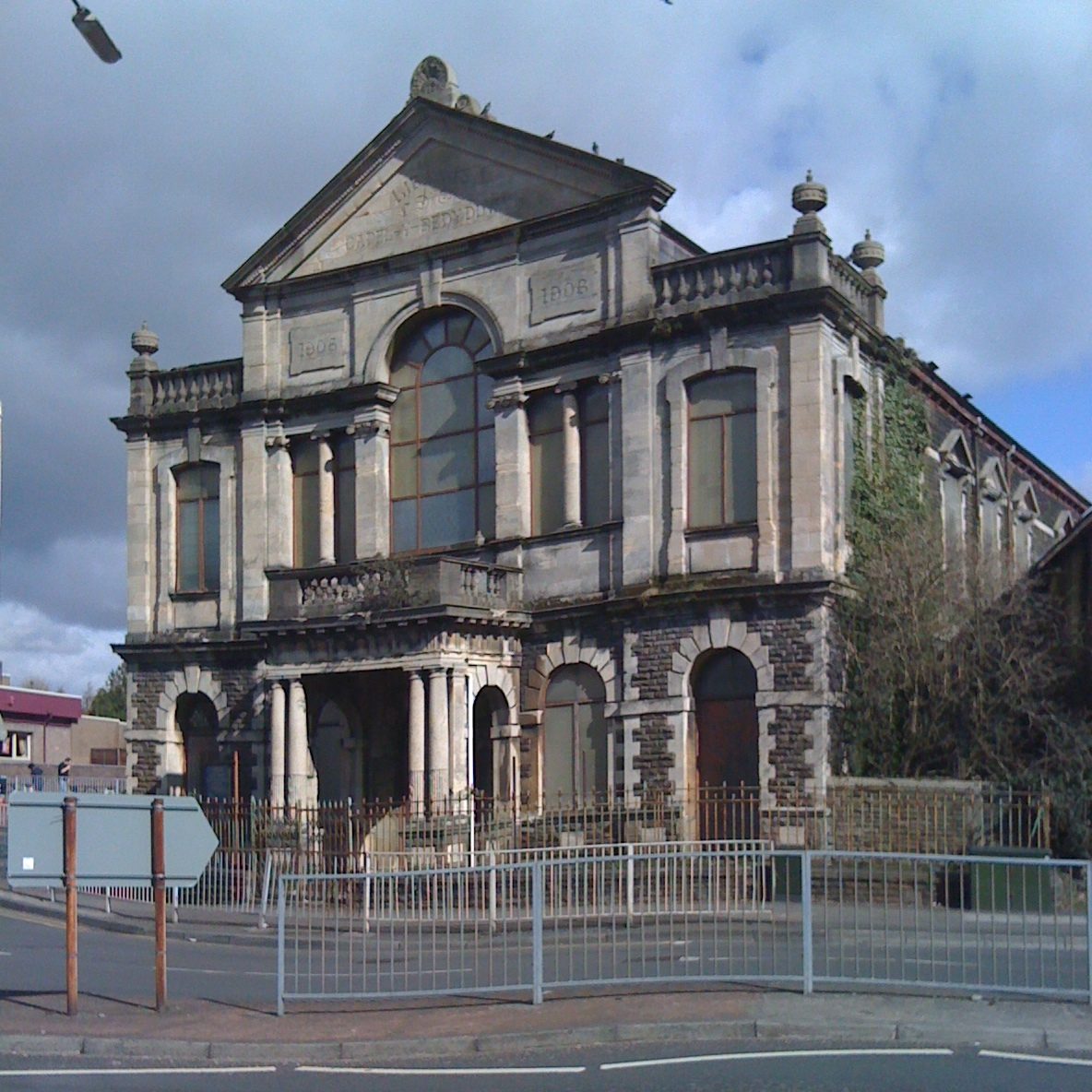 Libanus chapel, on Cwmbwrla Roundabout, Swansea - 14 March 2010